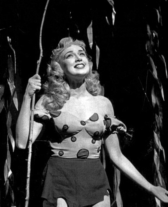 Photo of Edie Adams as Daisy Mae from the Broadway play Li'l Abner.